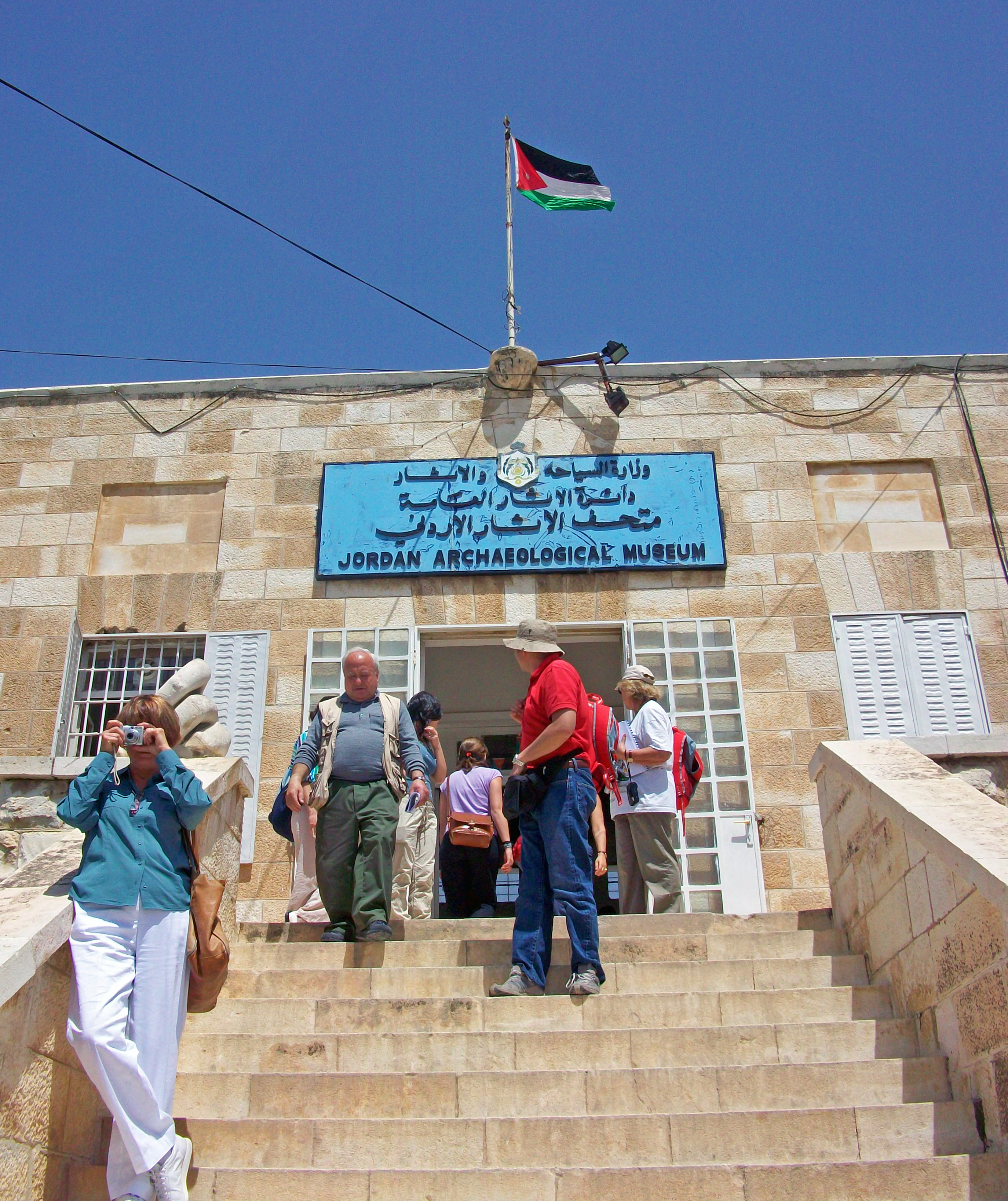 Entrance to the Jordan Archaeological Museum on Citadel Hill in Amman